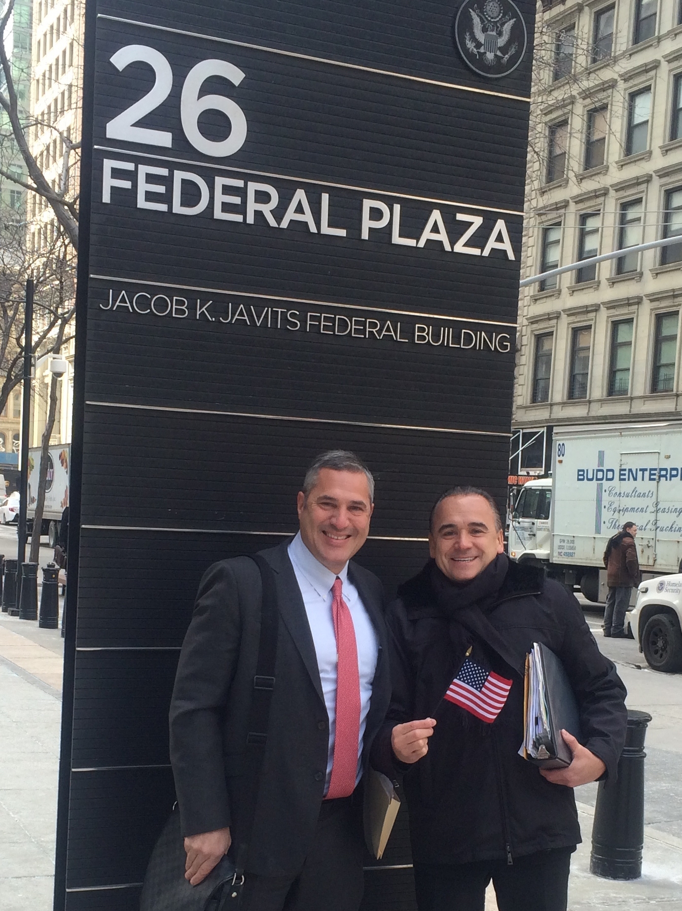 This is a picture of Michael Wildes with Jean Georges.